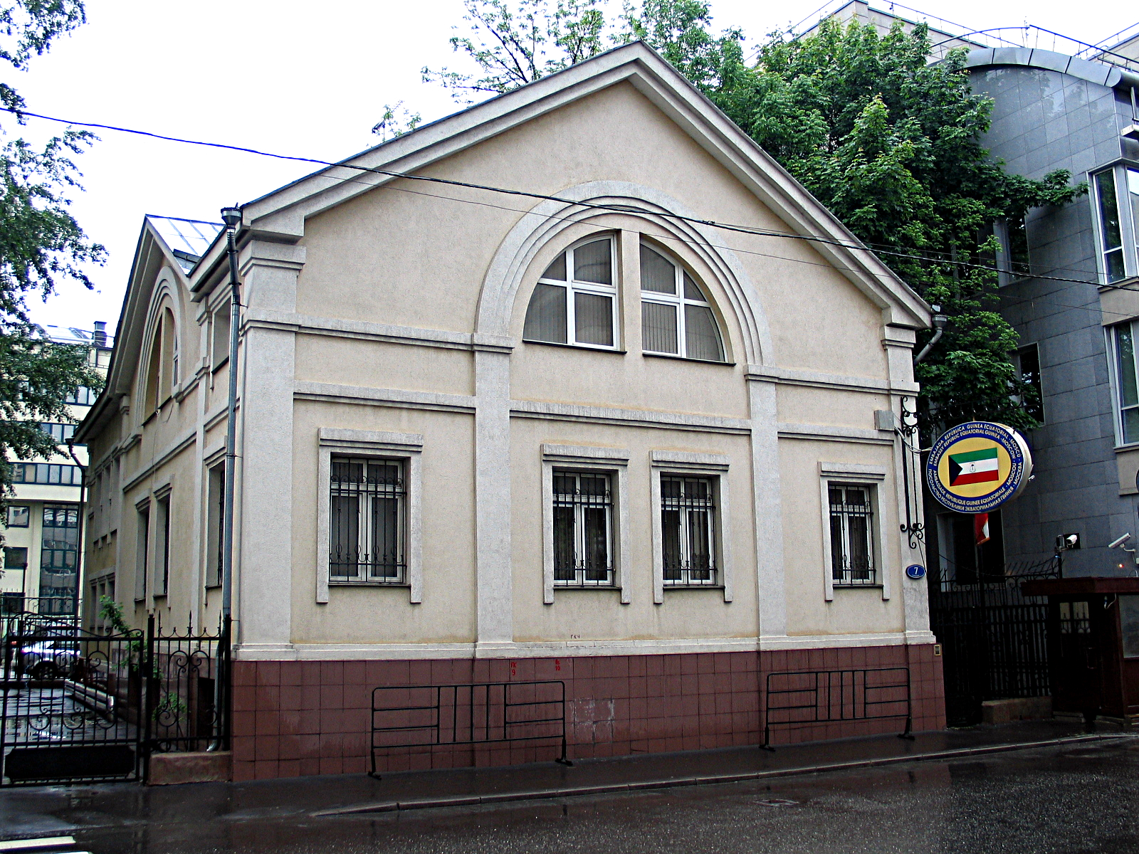 Embassy of Equatorial Guinea in Moscow (Pogorelsky Side Street, 7/1)